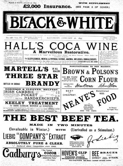 Page from the London weekly Black & White (January 25, 1895)